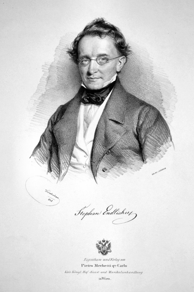 Stephan Endlicher, Austrian botanist, Lithography by Josef Kriehuber, 1848